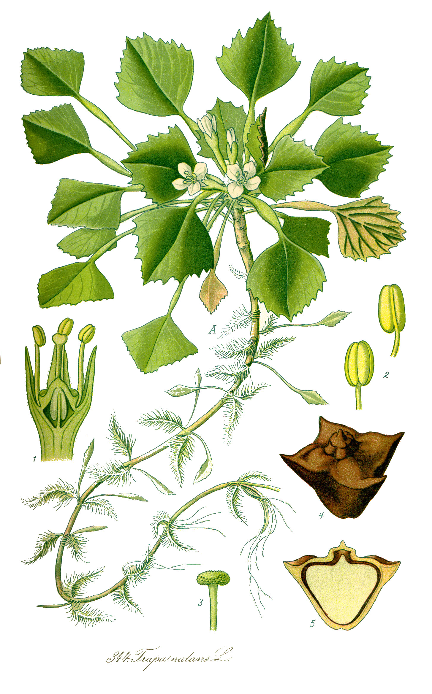 Name Trapa natans Family Trapaceae